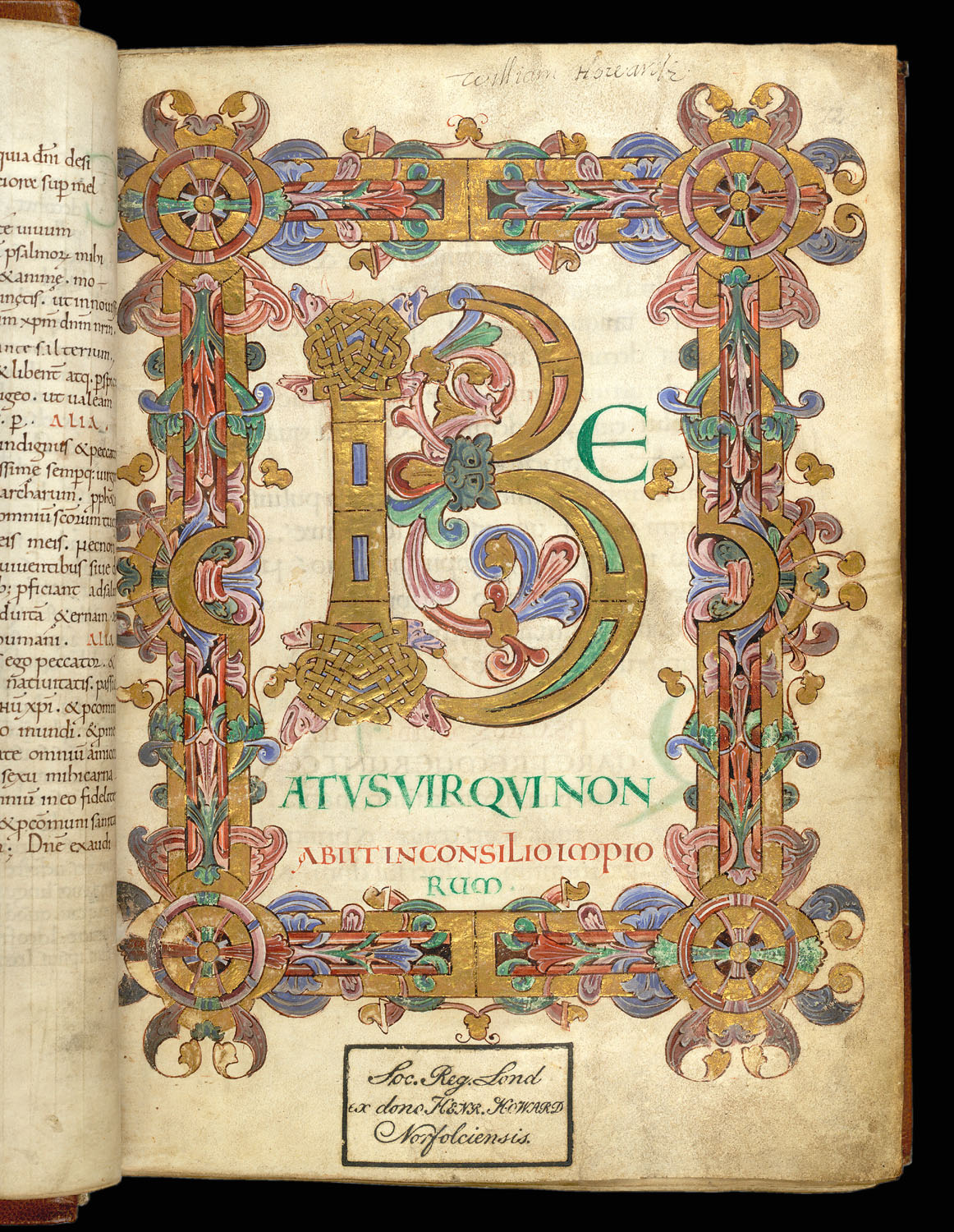 Arundel psalter f12r Illuminated initial and border, Beatus initial